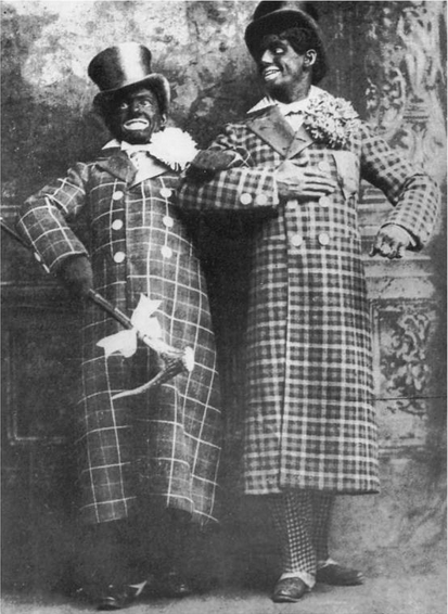 Montgomery and Stone at the Palace Theatre, London, in 1899. Both performers are in blackface.